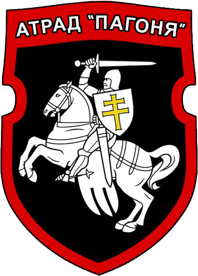 Pagonya squad (Ukraine/Belarus)